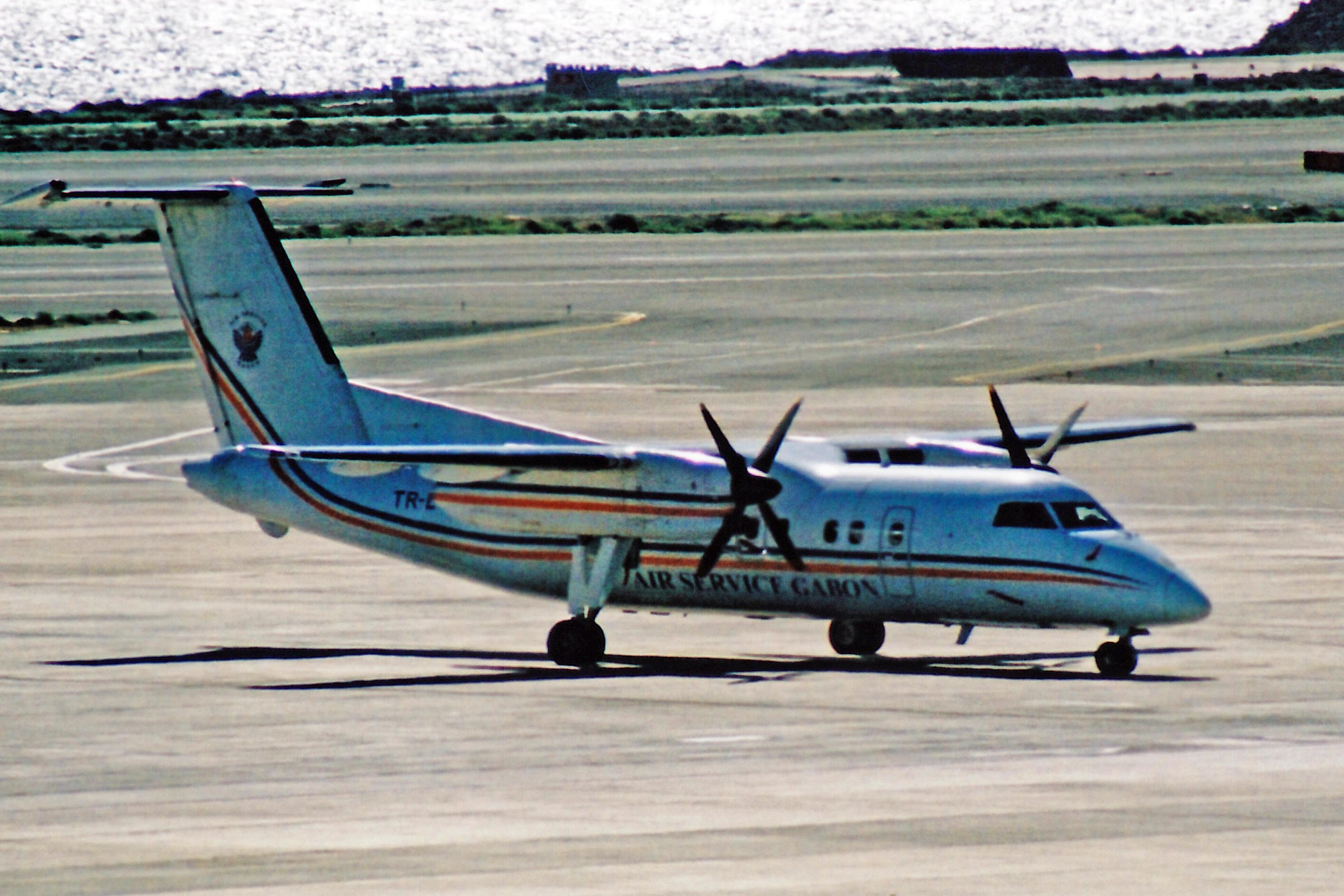 TR-LGC Dash 8-102A Air Service Gabon LPA 10NOV03